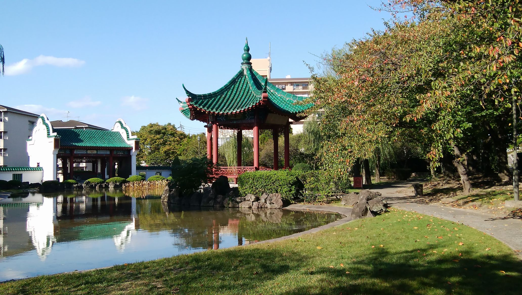 Peace Civic Park "Bukan no Mori", Oita City, Oita, Japan.